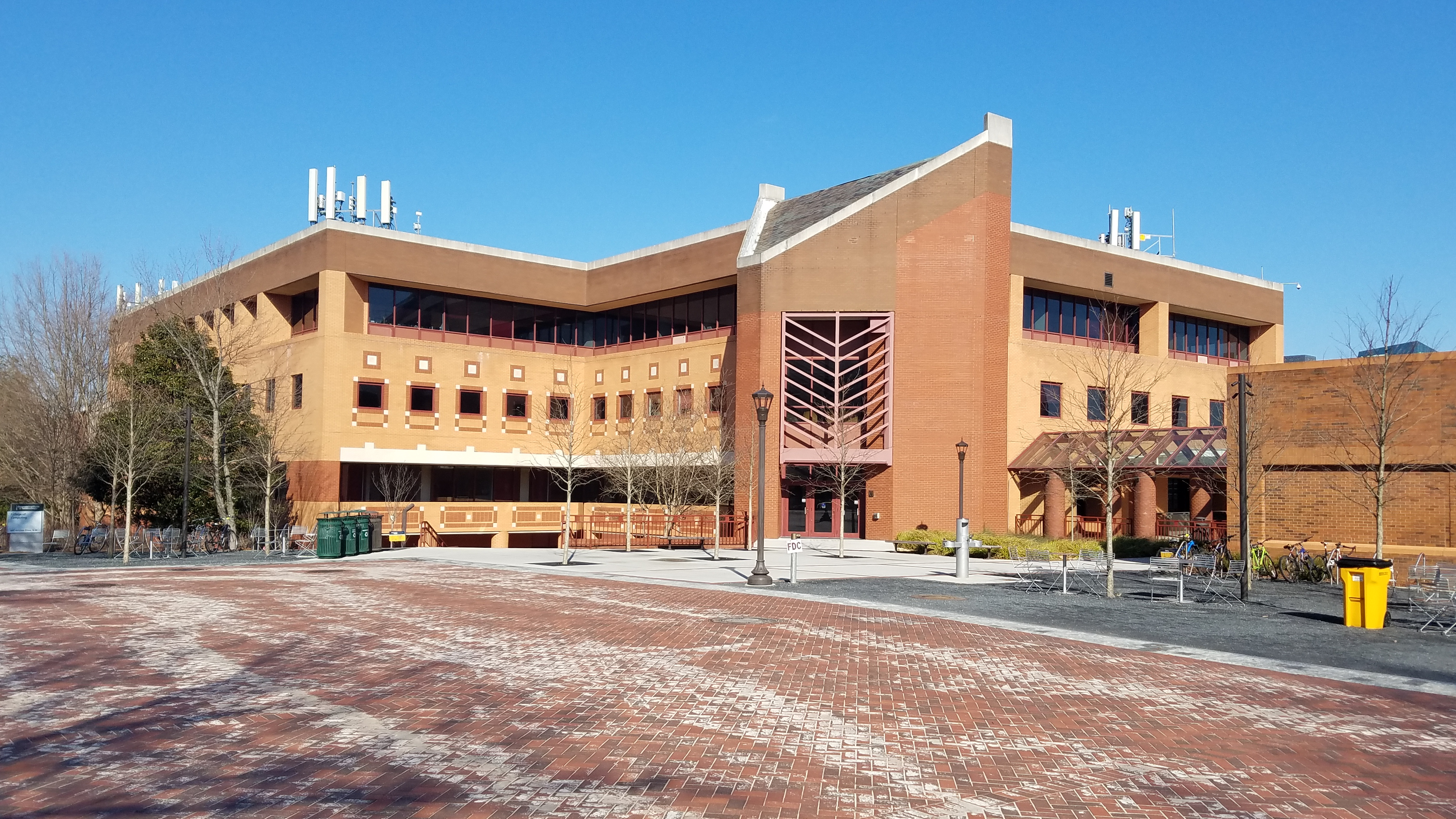 College of Computing Building on the campus of the Georgia Institute of Technology, Atlanta, Georgia, United States